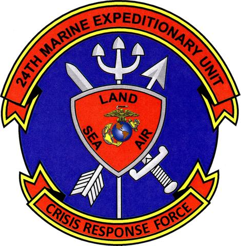 24th MEU logo with updated motto.